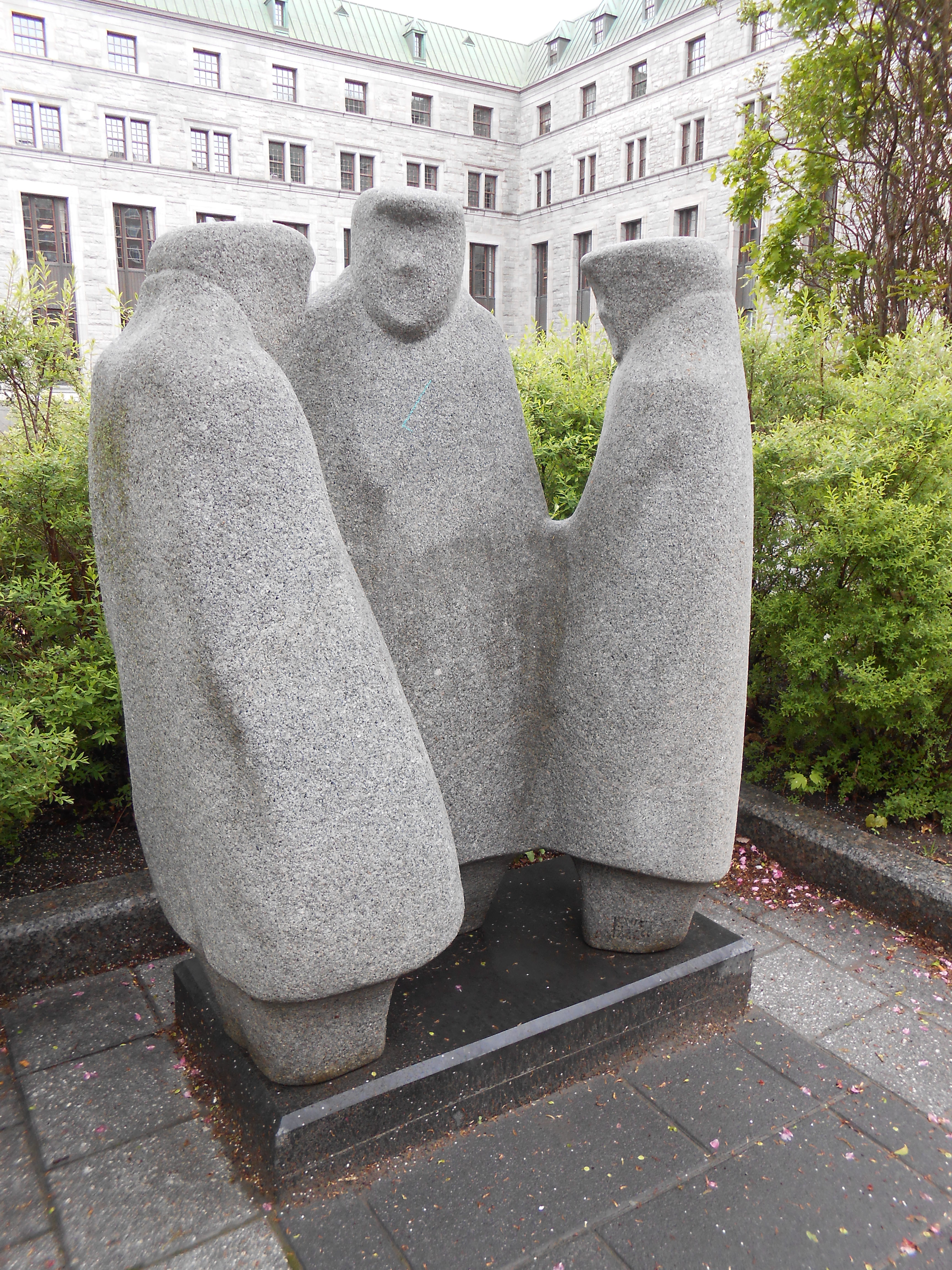 Discussion is a sculpture in granite made by Lewis Pagé located on Grande Allée, Quebec City.